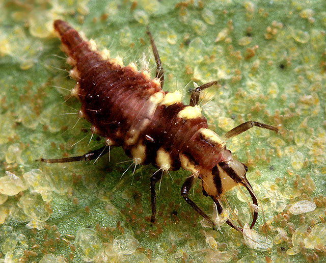 Green lacewing larva from Thumbnail Image Number K7545-9 A green lacewing larva dines on whitefly nymphs. Photo by Jack Dykinga.